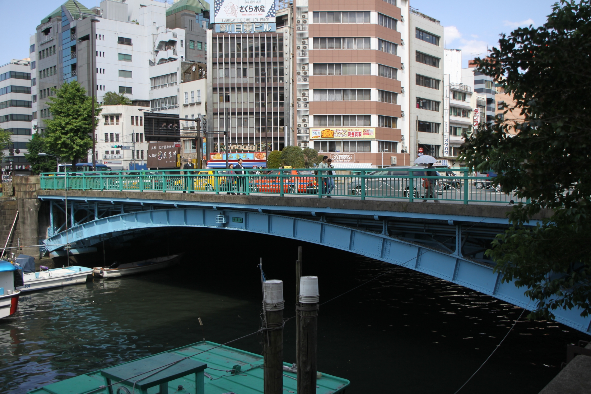 Asakusa Bridge (Asakusa-bashi)